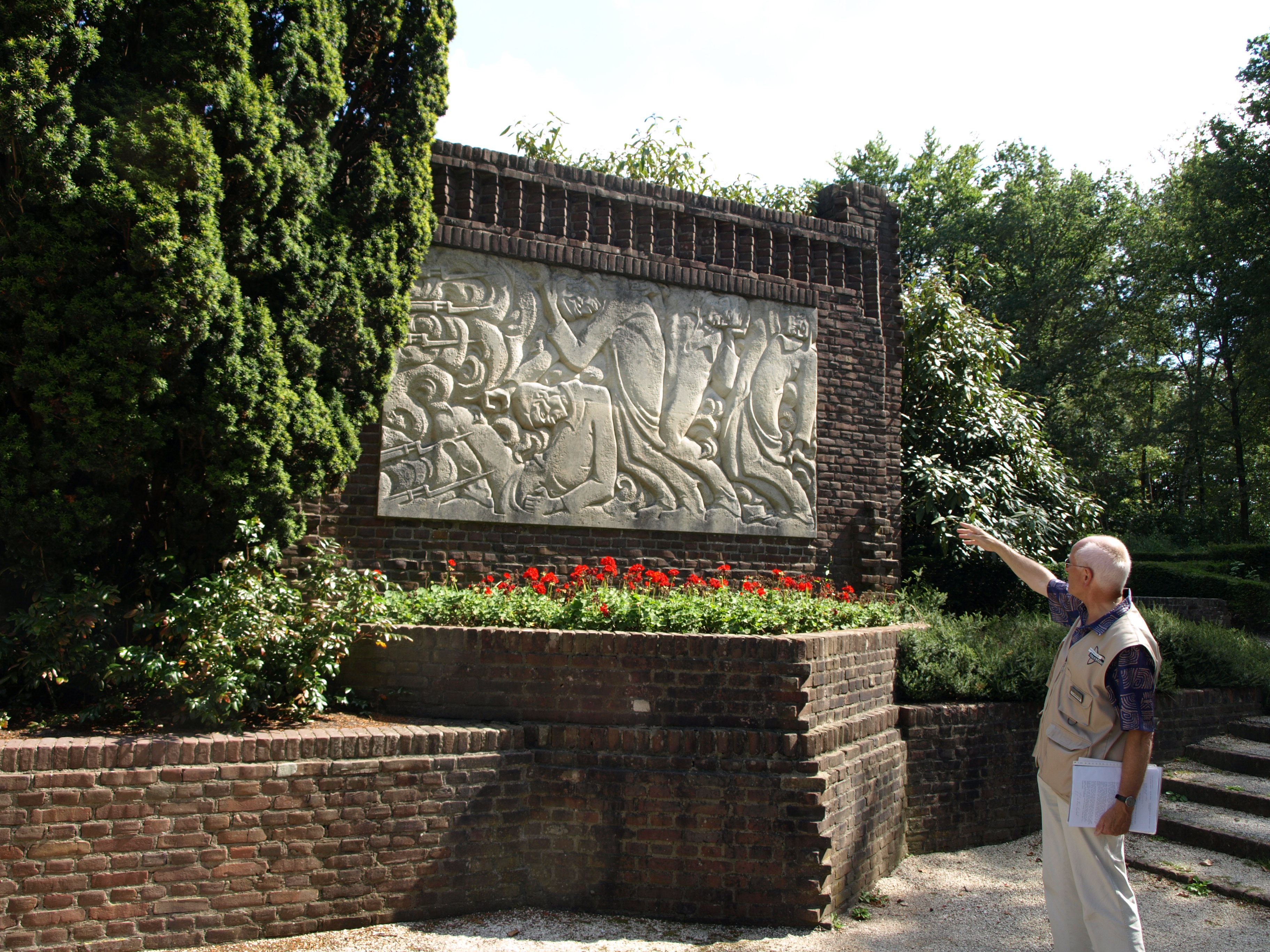 Amersfoort, Belgenmonument – memorial commemorating the internment of Belgian soldiers in the Netherlands during the First World War: Jan van Adrichem explaining details of one of the sculptures at the rear of the wall.